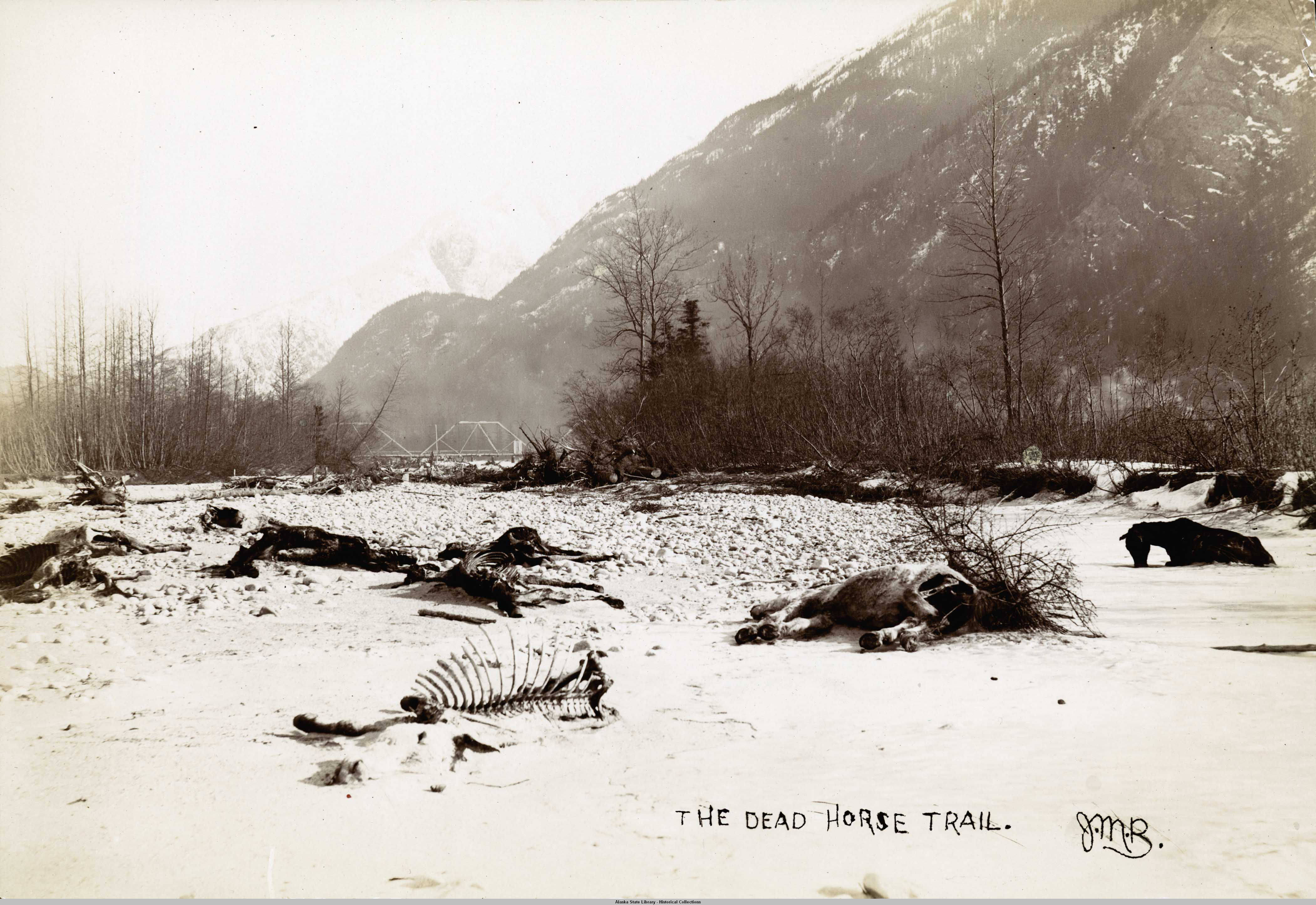 Scenery from White Pass Trail, known as Dead Horse Trail, on the border of southeast Alaska and British Columbia, Canada, during the Klondike gold rush. The horses are worked to death and left by prospectors hurrying to reach the gold fields